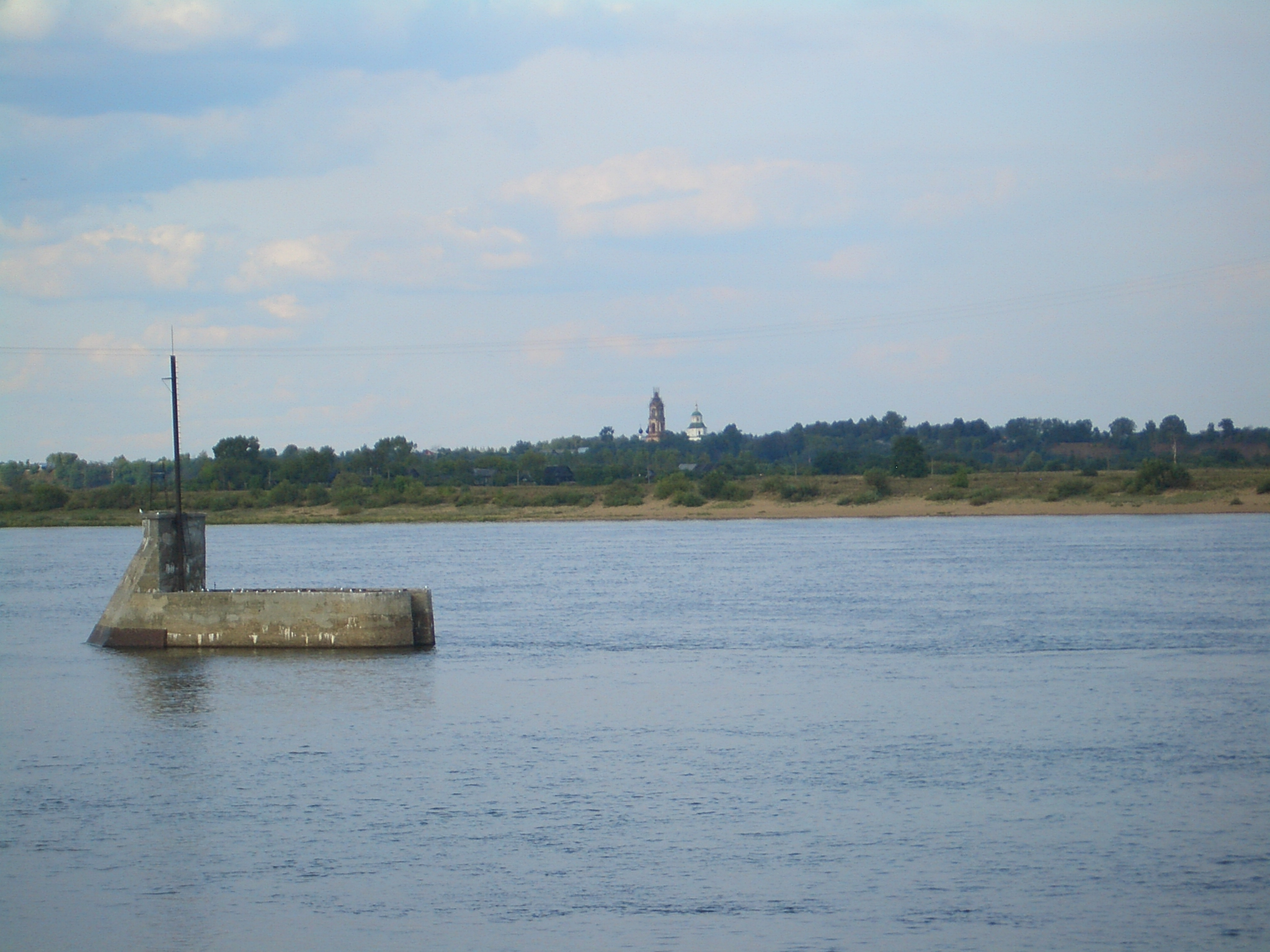 Looking from Balakhna across the Volga into Gorodetsky District with the churches of Nikolo-Pogost in background.